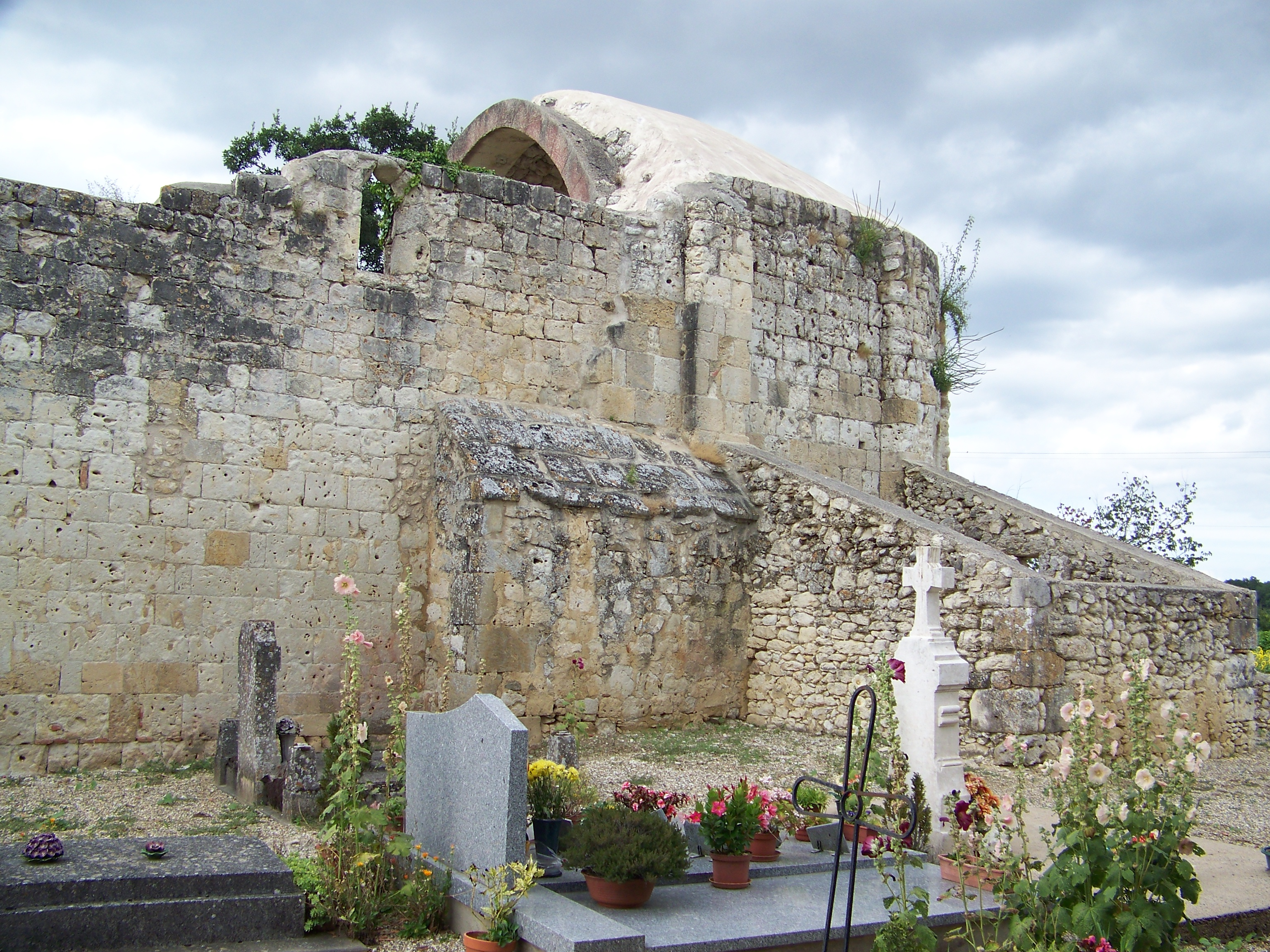 Ruins of the Saint-Lannes chapel